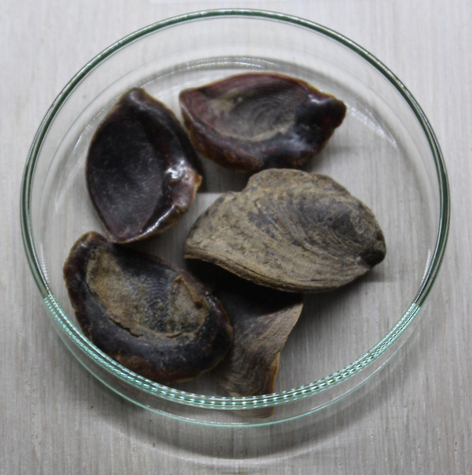 Operculum of Mollusca